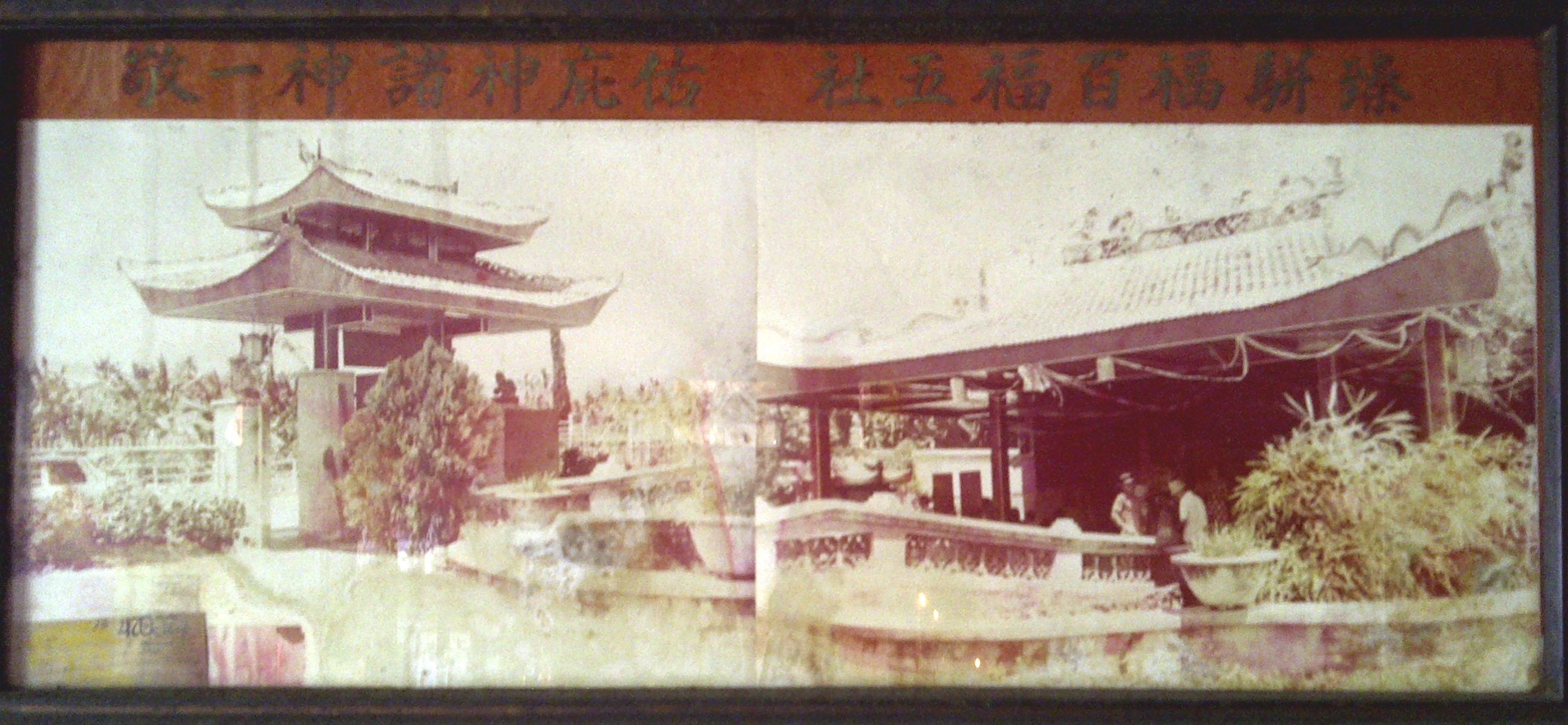 Old photos of Hoo Tong Bio temple, Banyuwangi, Indonesia